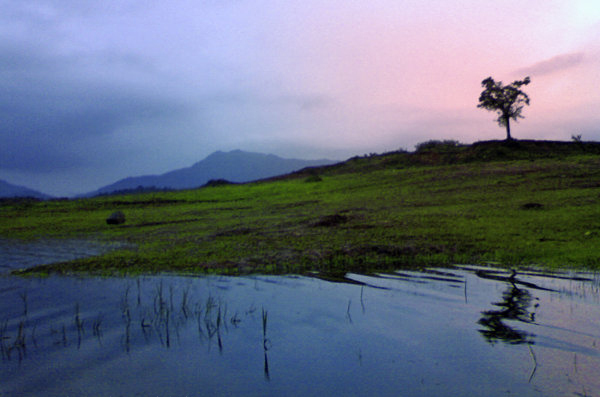 Karapuzha dam, Wayanad. The landscape is simply superb. It is perfect green and still water.